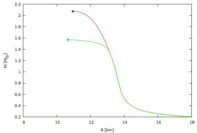 Mass-radius diagrams for two neutron stars equations of state, one with the kaon condensate (green line) and one without the kaon condesate (red line). Tolman-Oppenheimer-Volkoff limits i.e. maximal masses for non-rotating configurations are marked with dots. Equations of state: green line: N.K. Glendenning and J. Schaffner-Bielich, Phys. Rev. C 60, 025803 (1999), red line: J. Zimanyi and S.A. Moszkowski, Phys. Rev. C 42, 1416 (1990)